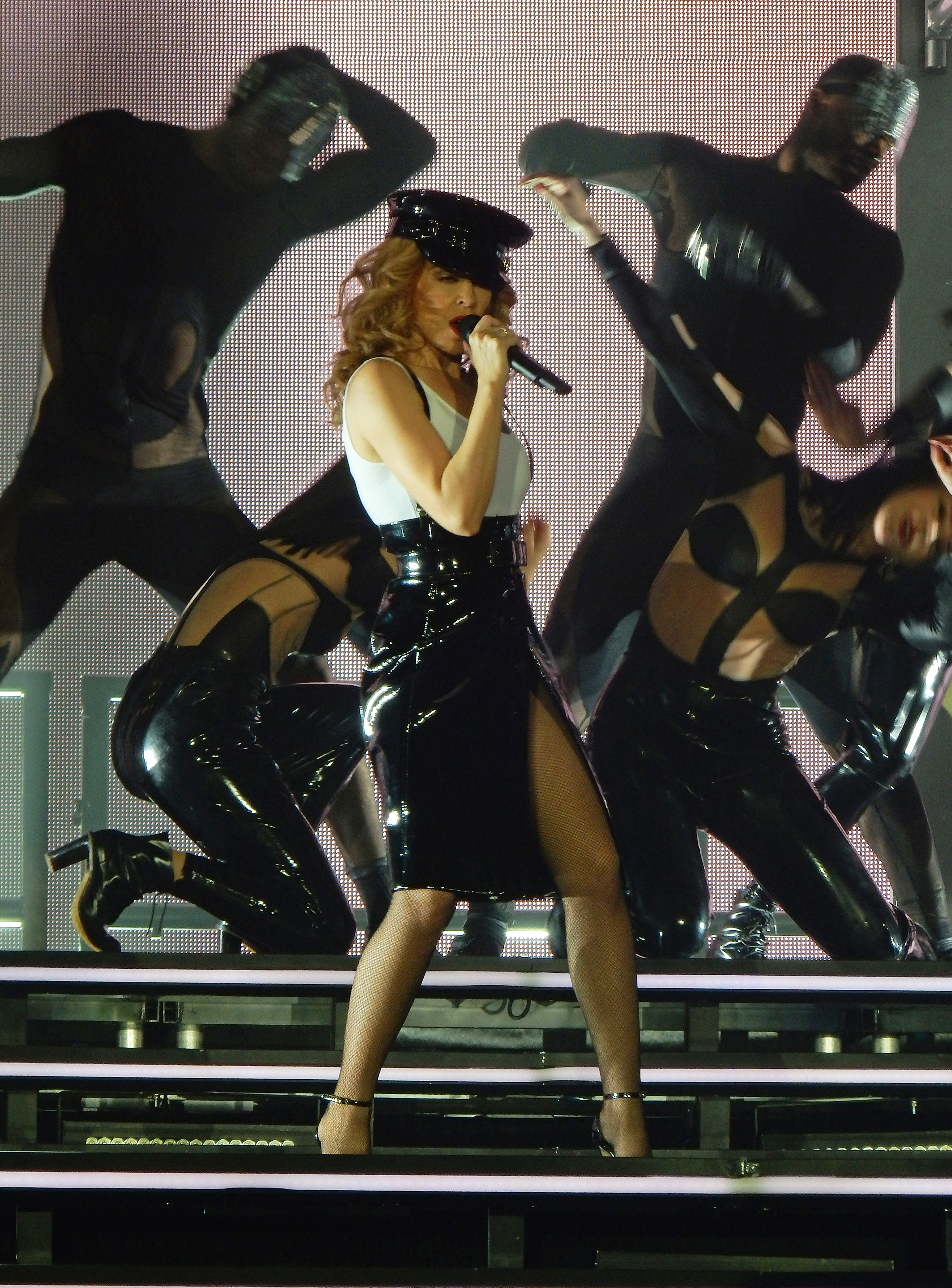 Kylie Minogue - Kiss Me Once Tour - Sheffield - 13.11.14. - 183